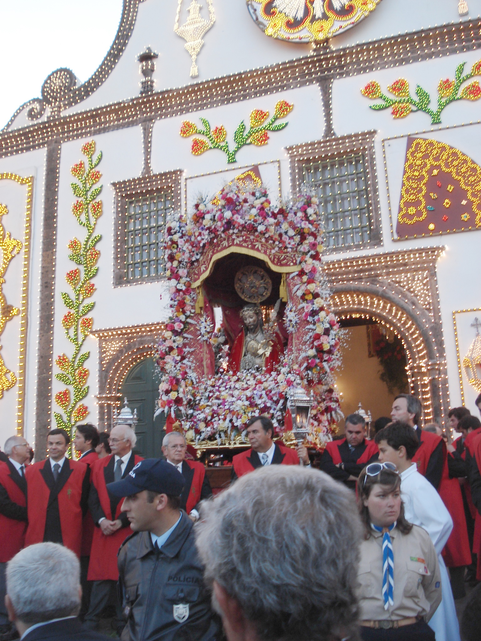 The image of Senhor Santo Cristo dos Milagres in front of the Church of the same name, civil parish of São José, municipality of Ponta Delgada (Azores), Portugal